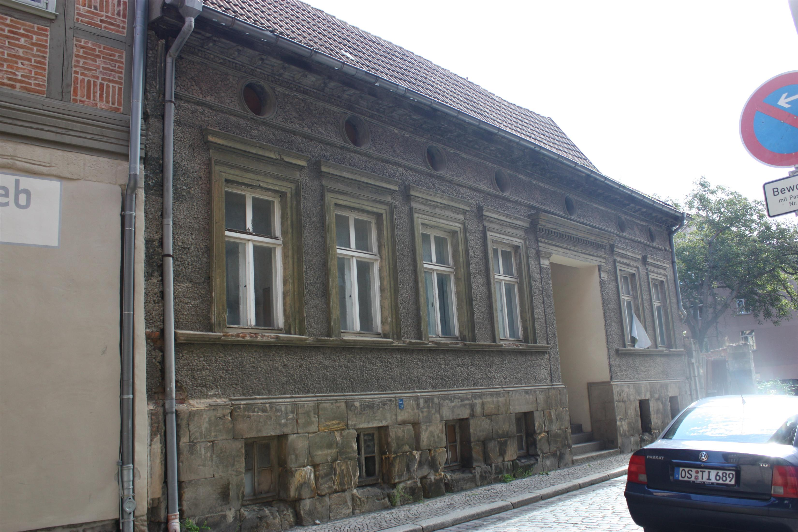 This is a photograph of an architectural monument.It is on the list of cultural monuments of Quedlinburg Quedlinburg Lange Gasse